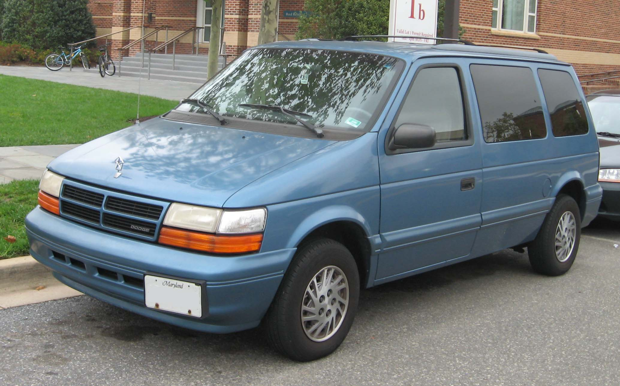 1994-1995 Dodge Caravan photographed in College Park, Maryland, USA.